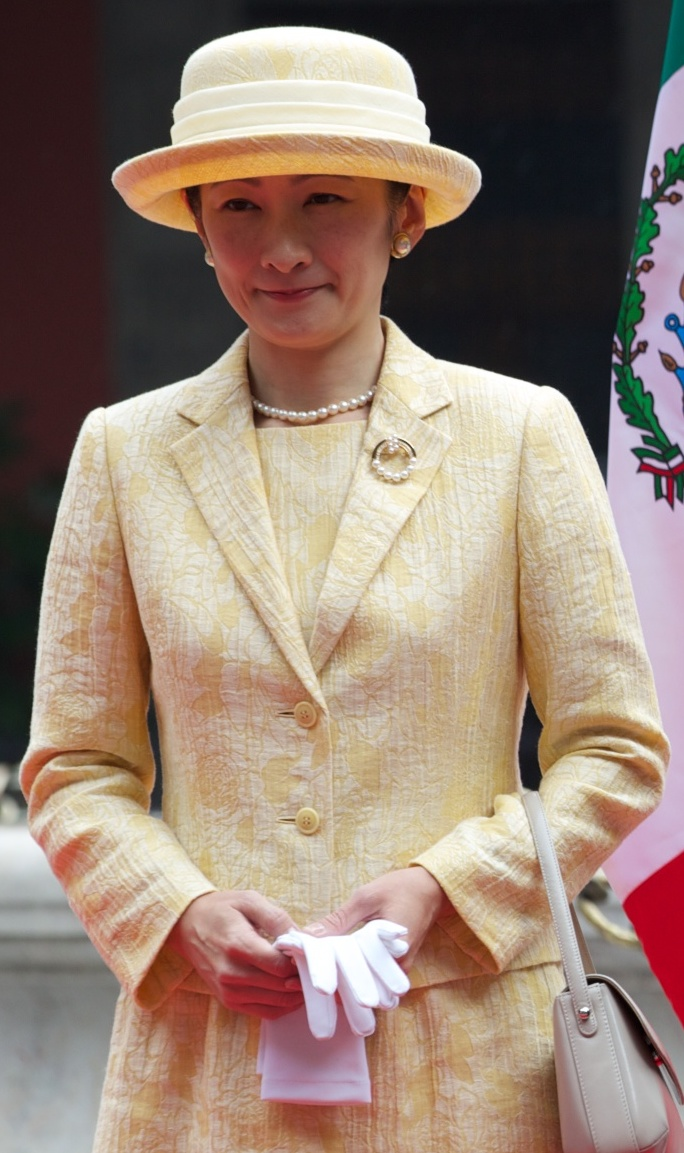 Prince and Princess Akishino during their visit to México City in 2014.